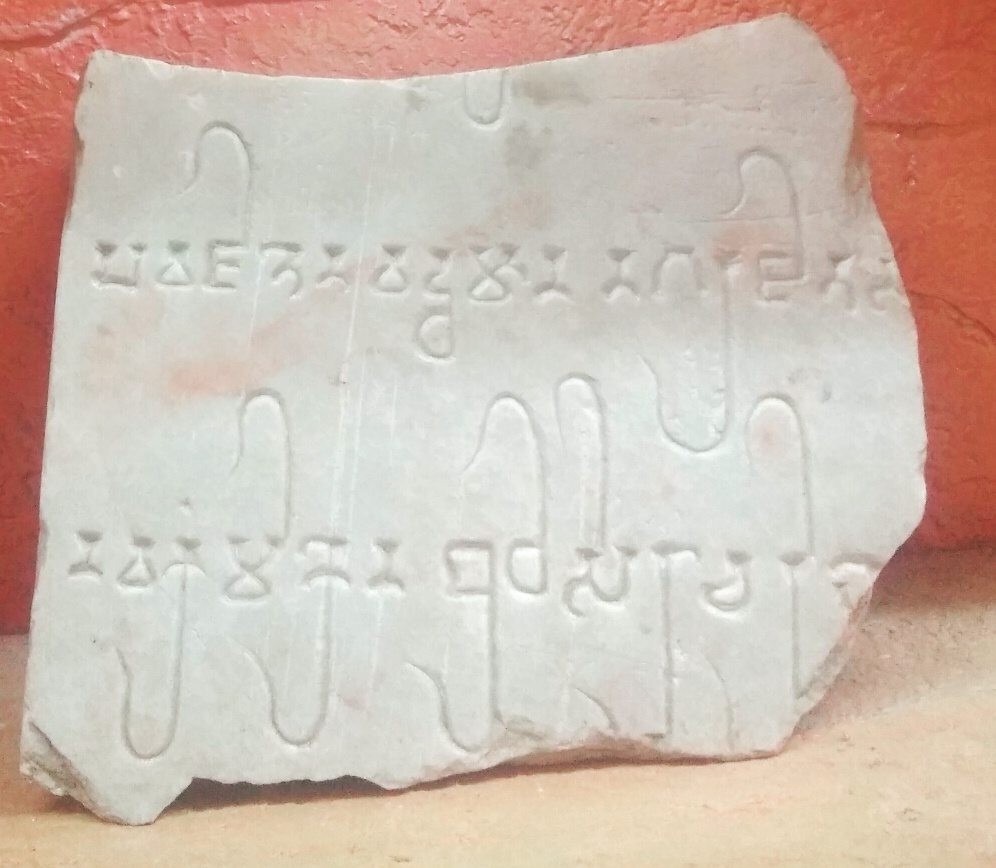 Inscribed stone in Brahmi script. It was excavated from Phanigiri.